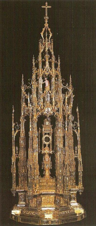 Monstrance of the Cathedral of Toledo. (Spain).